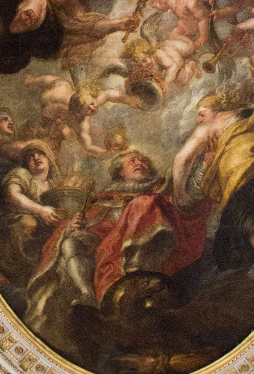 James I on the ceiling of the Banqueting House, Whitehall, by Peter Paul Rubens Wikidata has entry Q642039 with data related to this building.